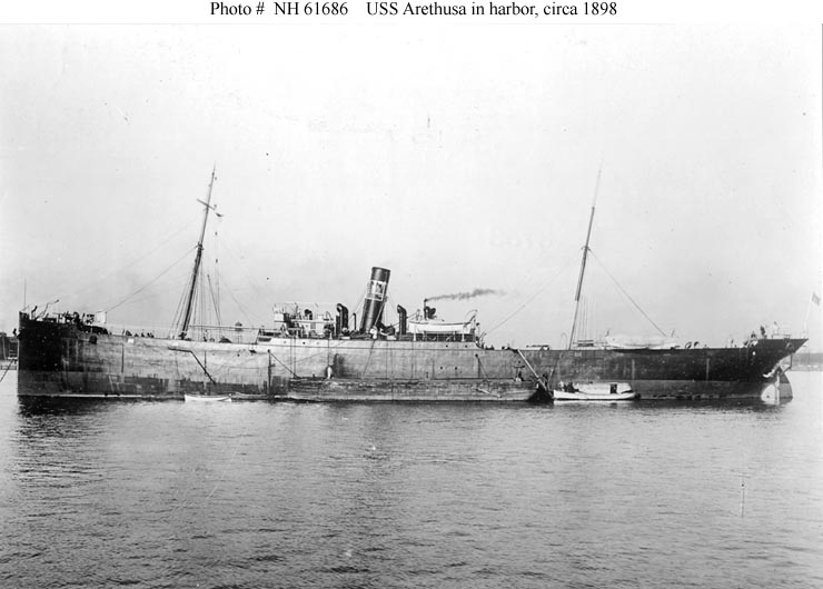 USS Arethusa (1898-1927, later AO-7) Photographed circa 1898. This ship began conversion to a water carrier during the Spanish-American War, but was commissioned too late to see service in that confict. About a decade later, she became the U.S. Navy's first oiler.